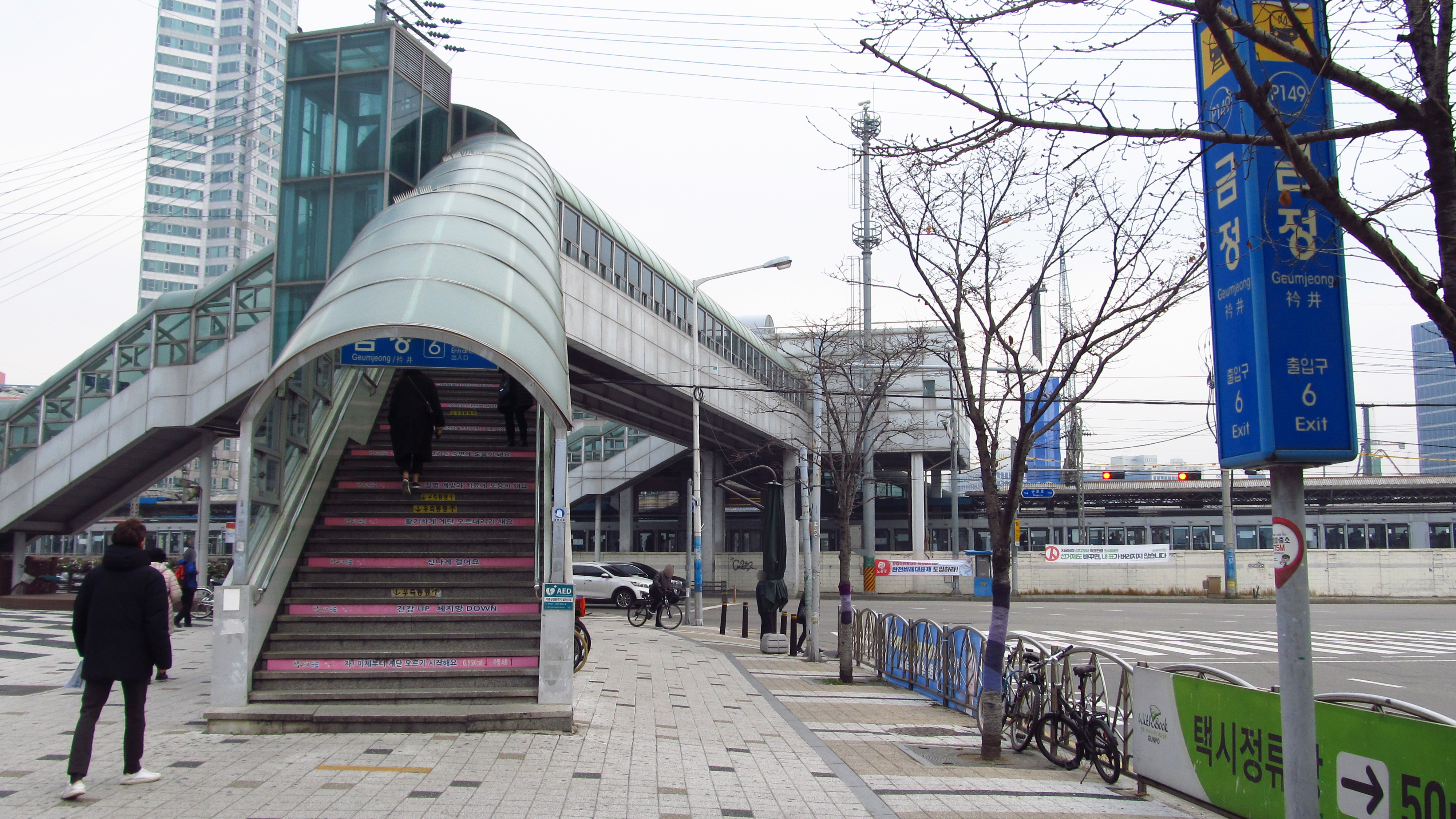 The no.6 entrance to Geumjeong Station on the Seoul Metro Line 1 and Line 4 in Gunpo city, Gyeonggi-do(province), Republic of Korea(South Korea)